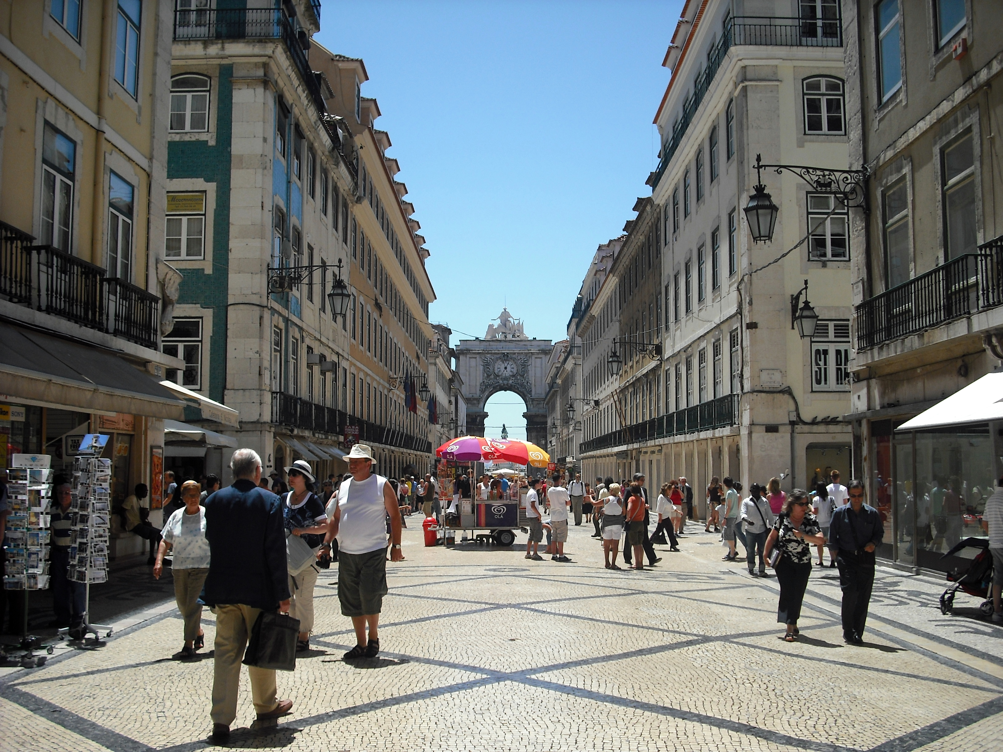 Street-view of the Rua Augusta during summer in Lisbon, Portugal. The Arco da Rua Augusta is pictured at the far end.